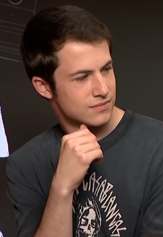 American actor Dylan Minnette